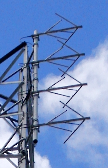 A broadcasting antenna for an FM radio station on a communications tower on Willans Hill, Wagga Wagga, New South Wales, Australia. These are called crossed dipole antennas, probably the most common type used for FM broadcasting. They consist of two V-shaped dipole elements facing each other; the one on the right driven by a coaxial cable, the one on the left a parasitic element. They radiate a circularly polarized (Cpol) radio signal. Four crossed-dipole "bays", fed in phase, are stacked vertically to increase the horizontal gain, so less of the signal power is radiated into the sky or down toward the ground and wasted. Alterations to original image: cropped out other parts of tower, increased brightness some.